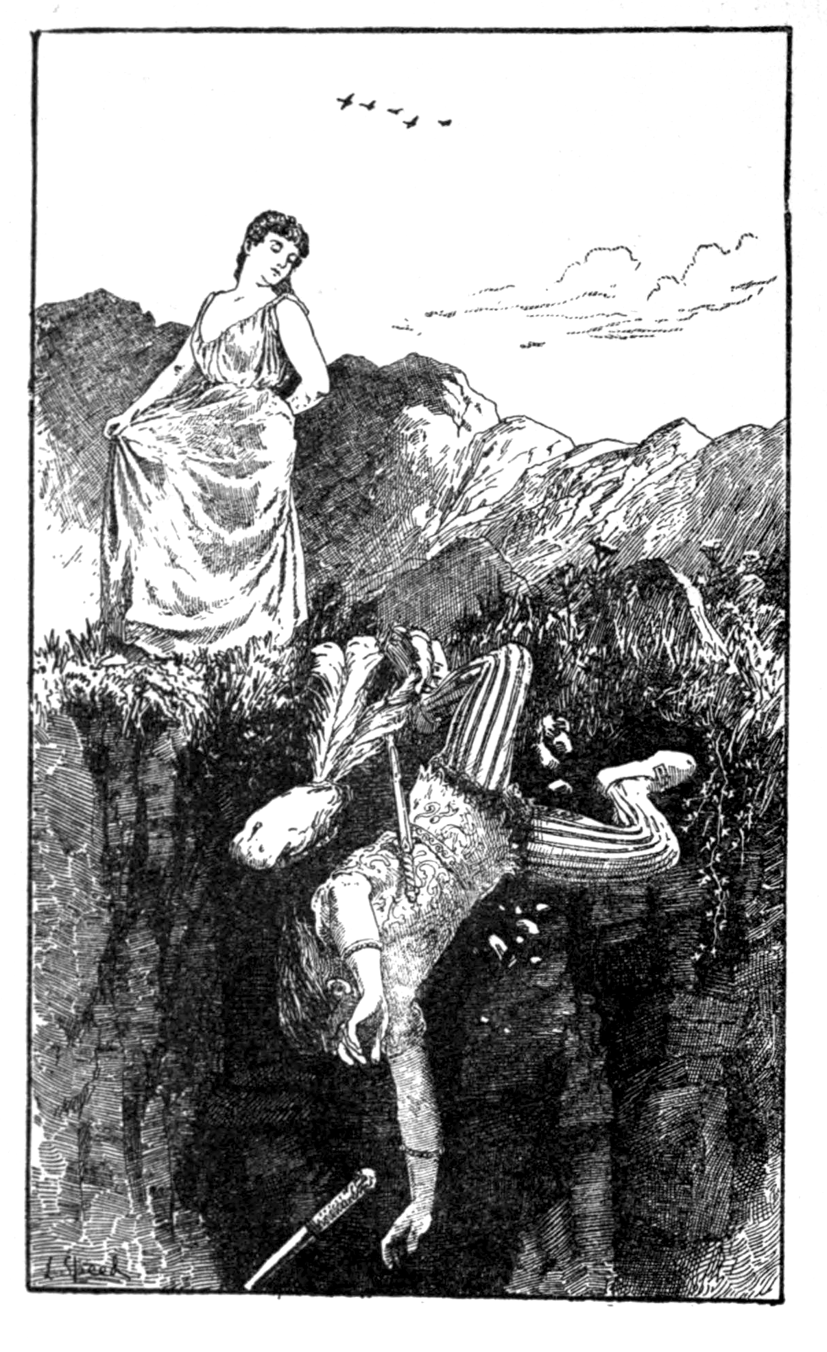 scan of illustration in a book of fairy tales.